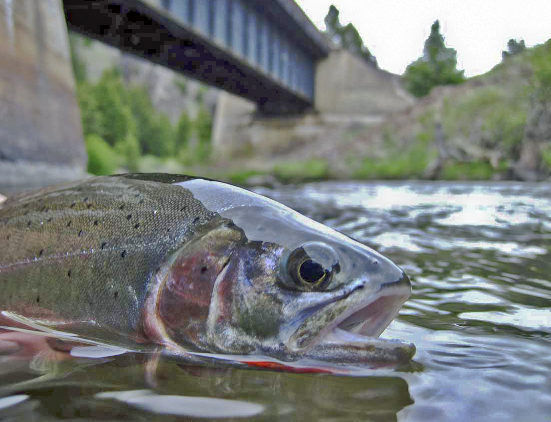 west-slope cutthroat trout in Silver Bow Creek, Butte, America